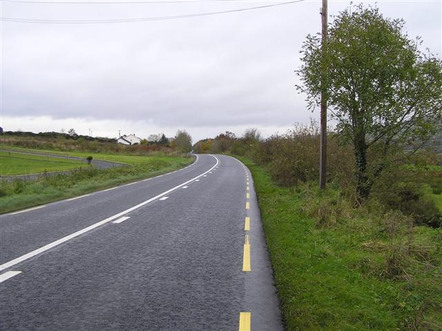 R239 at Drumhaggart Heading west towards Burnfoot